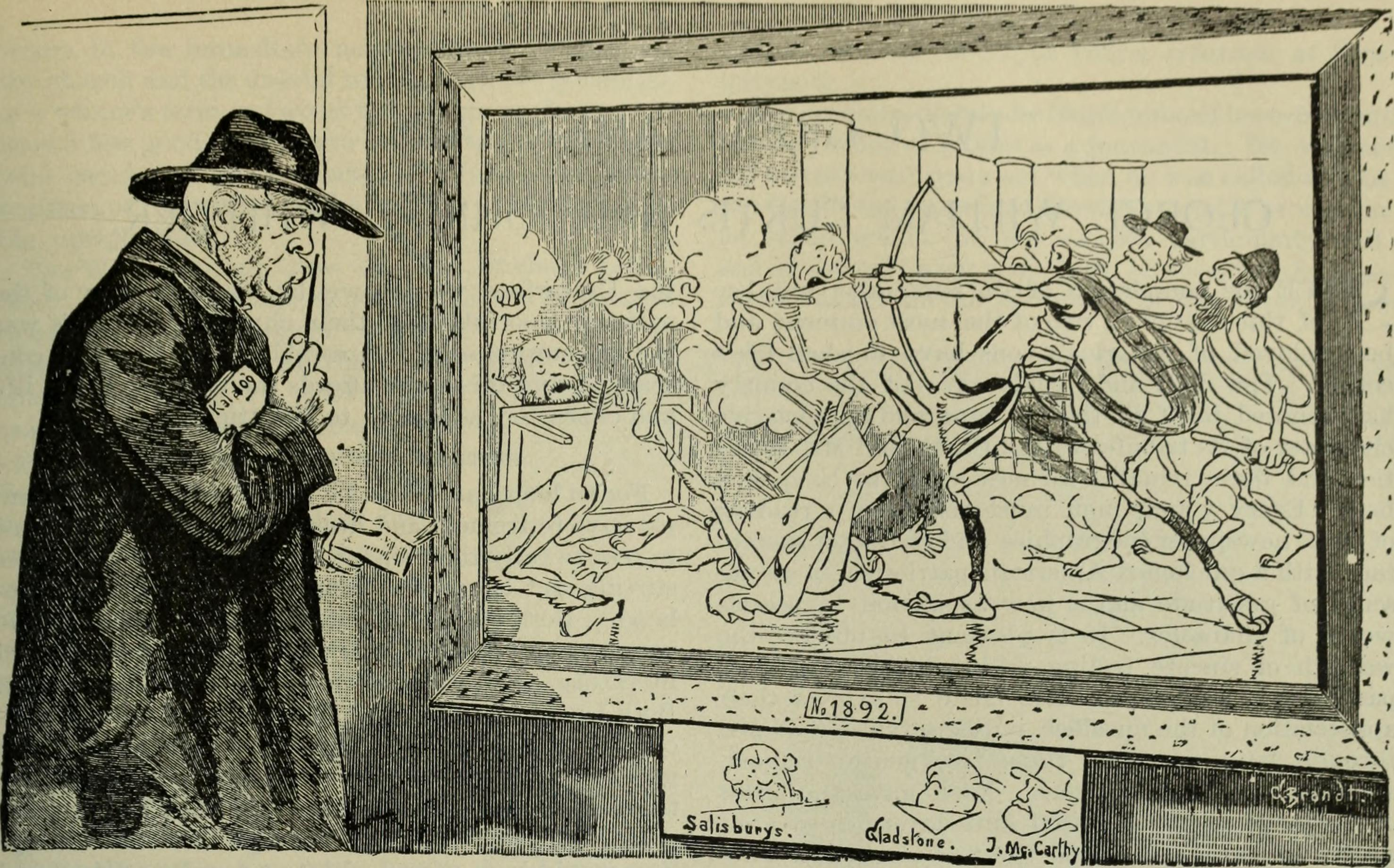 Title: Review of reviews and world's work Year: 1890 (1890s) Authors: Subjects: Publisher: New York Review of Reviews Corp Text Appearing Before Image: THE GENERAL ELECTION OF 1893. • See then, O intrepid Gladstone, what evils your journey along this road has produced. You have even troubled the quietdreams of the Scotch.—From 11 Papagallo (Rome), July, 1893. Text Appearing After Image: THE RETURN OF ULYSSES, OR THE ENGLISH ELECTIONS. The old art critic (Bismarck) does not find the action in this picture sufiiciently!life-like. He would treat the subject quite differently. From Kladderadatsch.